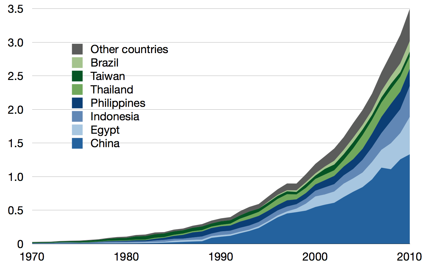 Production of farmed tilapia by countries in million tonnes, 1970–2010, as reported by the FAO. Based on data sourced from the FishStat database